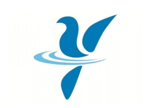 Flag of Yusui Kagoshima